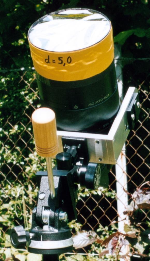 reflector telephoto lens MC MTO-11CA with minimum equipment as sun telescope